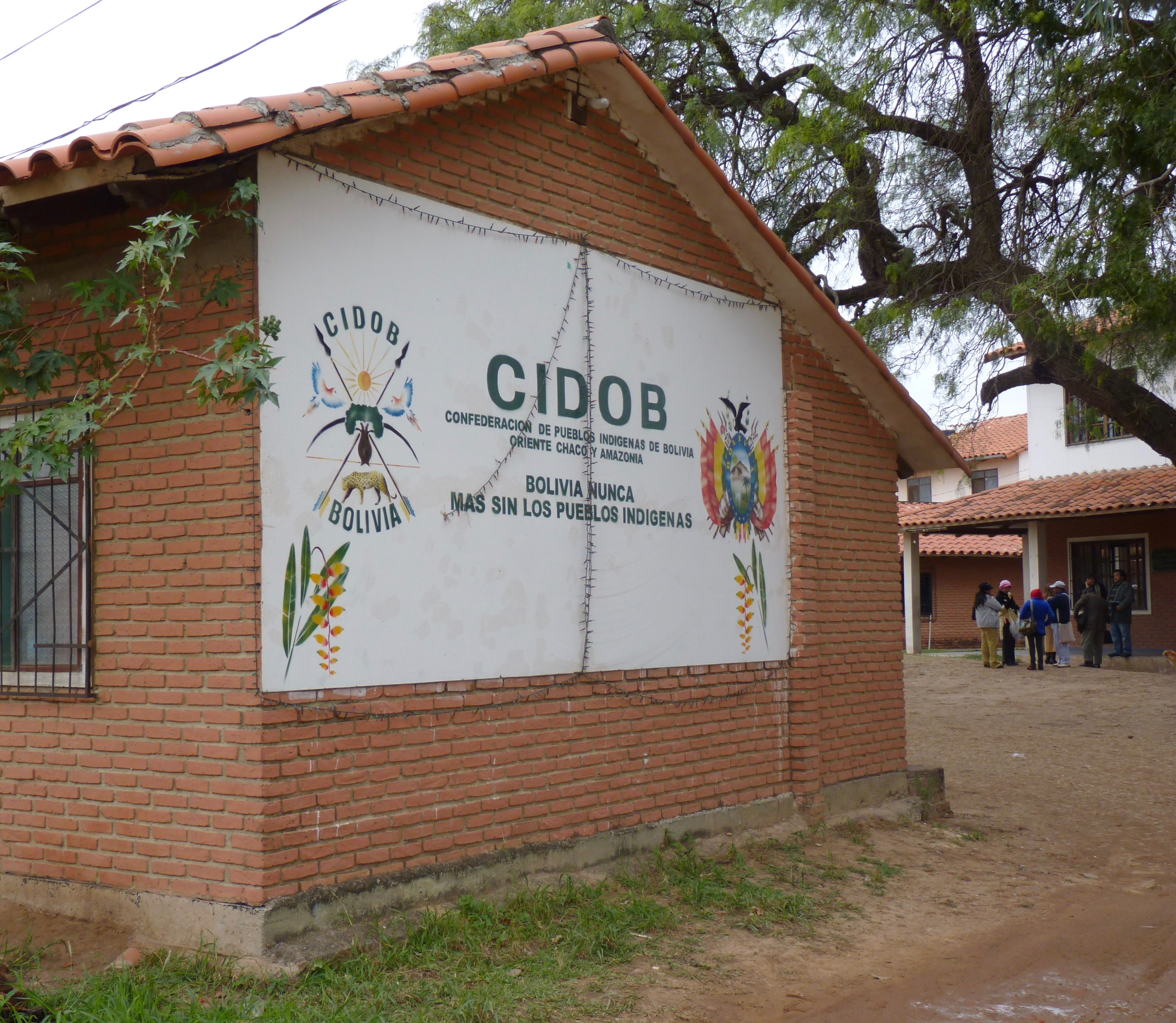 Headquarters of the Confederation of Indigenous Peoples of Bolivia, (Spanish: Confederación de Pueblos Indígenas de Bolivia; CIDOB) in Santa Cruz de la Sierra, Bolivia. The entire compound, including buildings pictured in the background, is part of the headquarters. The mural includes the organization's coat of arms, that of Bolivia, the organization's name, the regions of the country it represents: East, Chaco, Amazon Basin, and the phrase: "Never again a Bolivia without indigenous peoples."